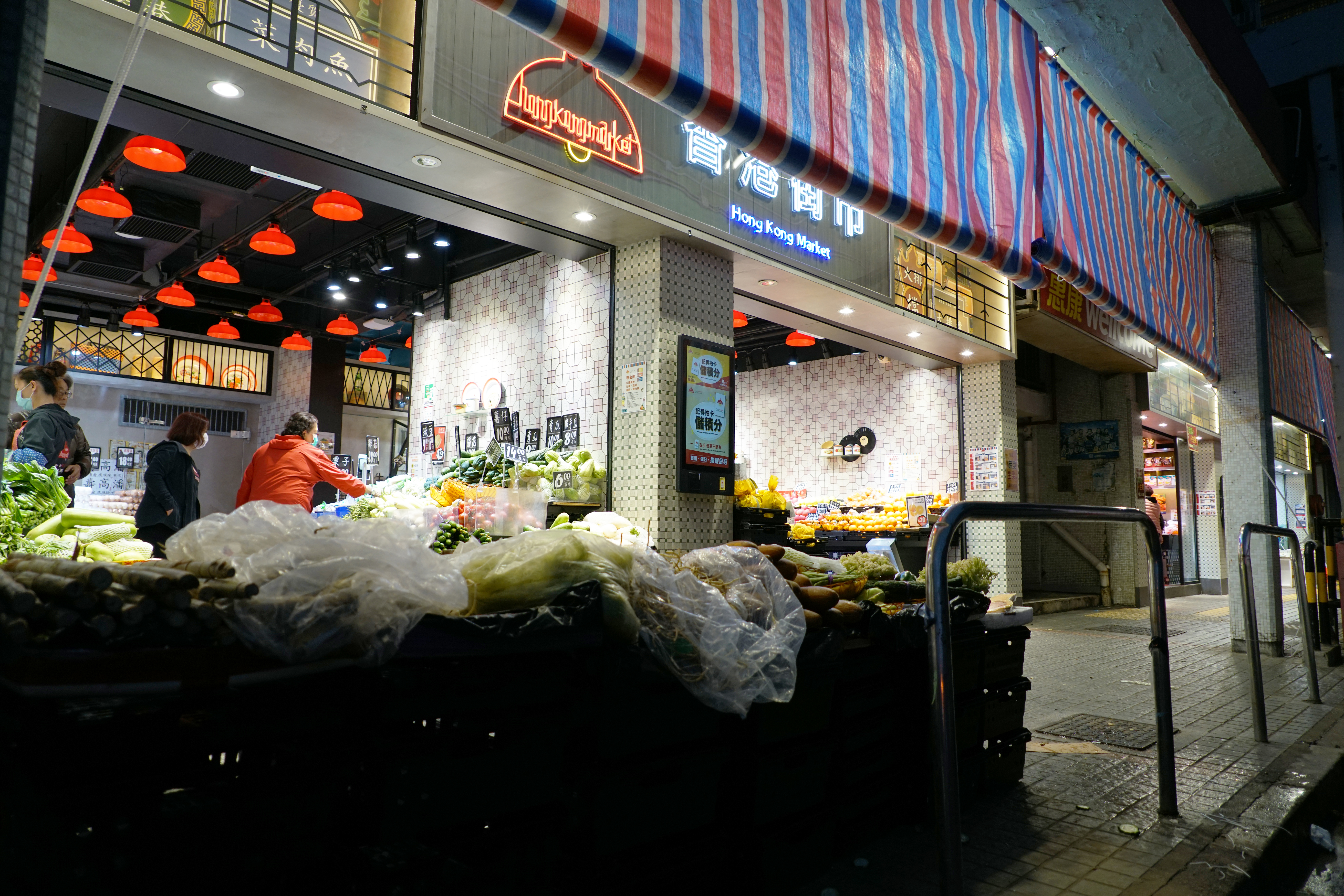 Shun Tin Market, Hong Kong.